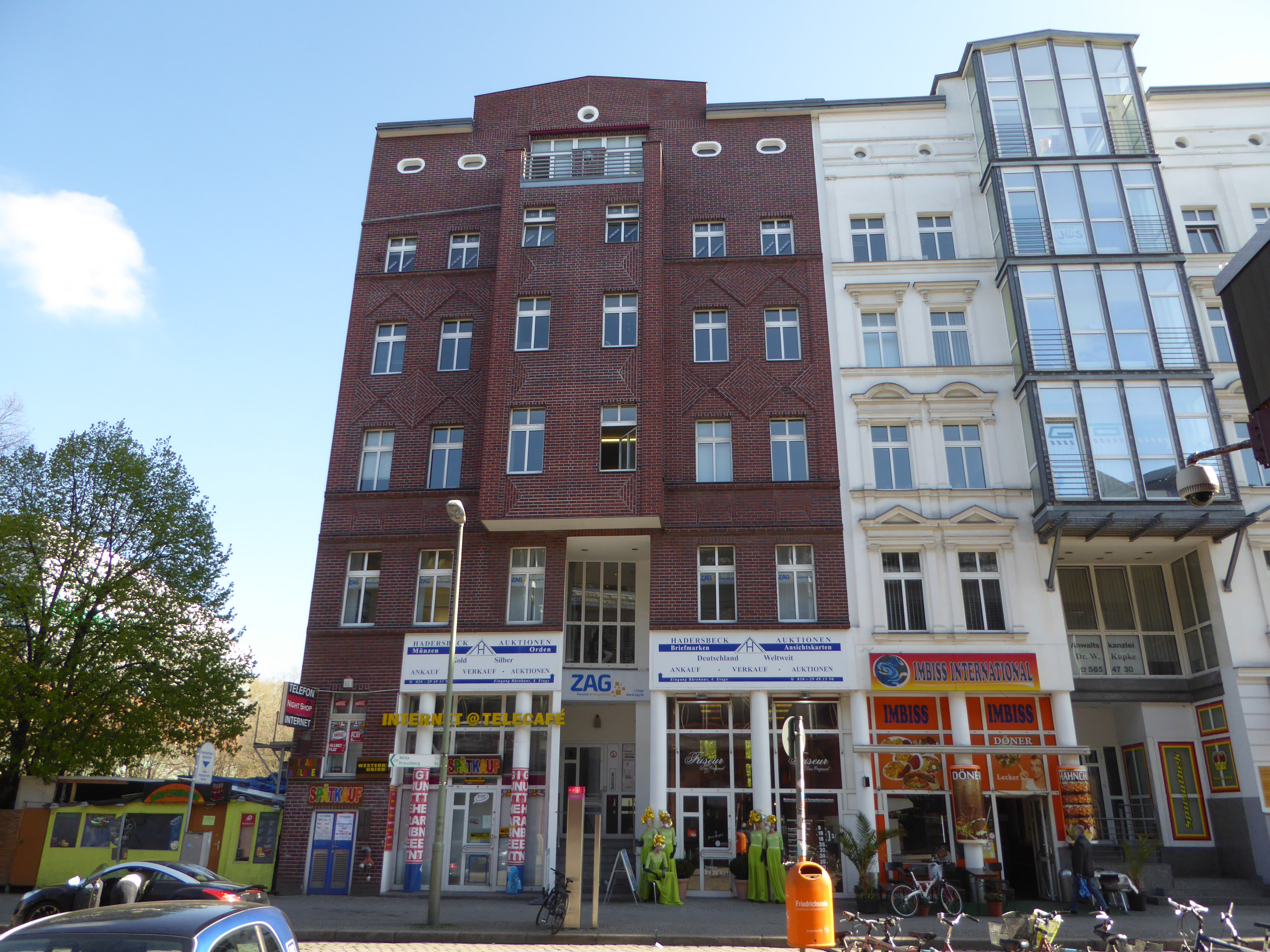 International Solar Energy Society (ISES), German Section, Erich-Steinfurth-Straße 8, 10243 Berlin